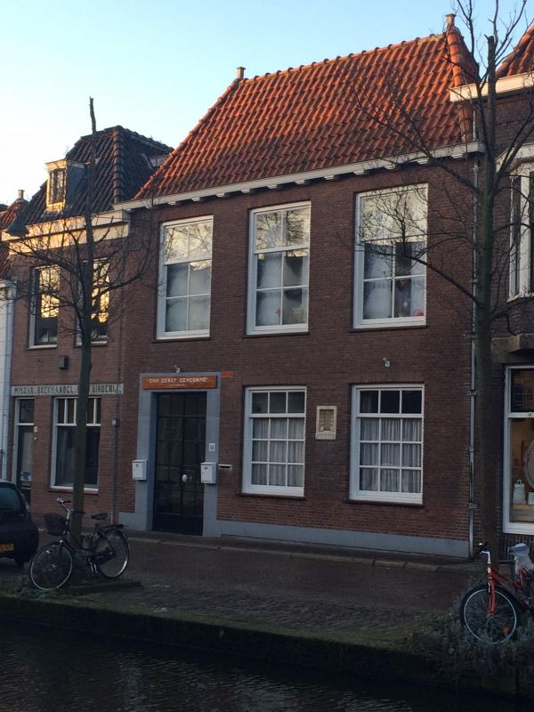 Delft CGGN